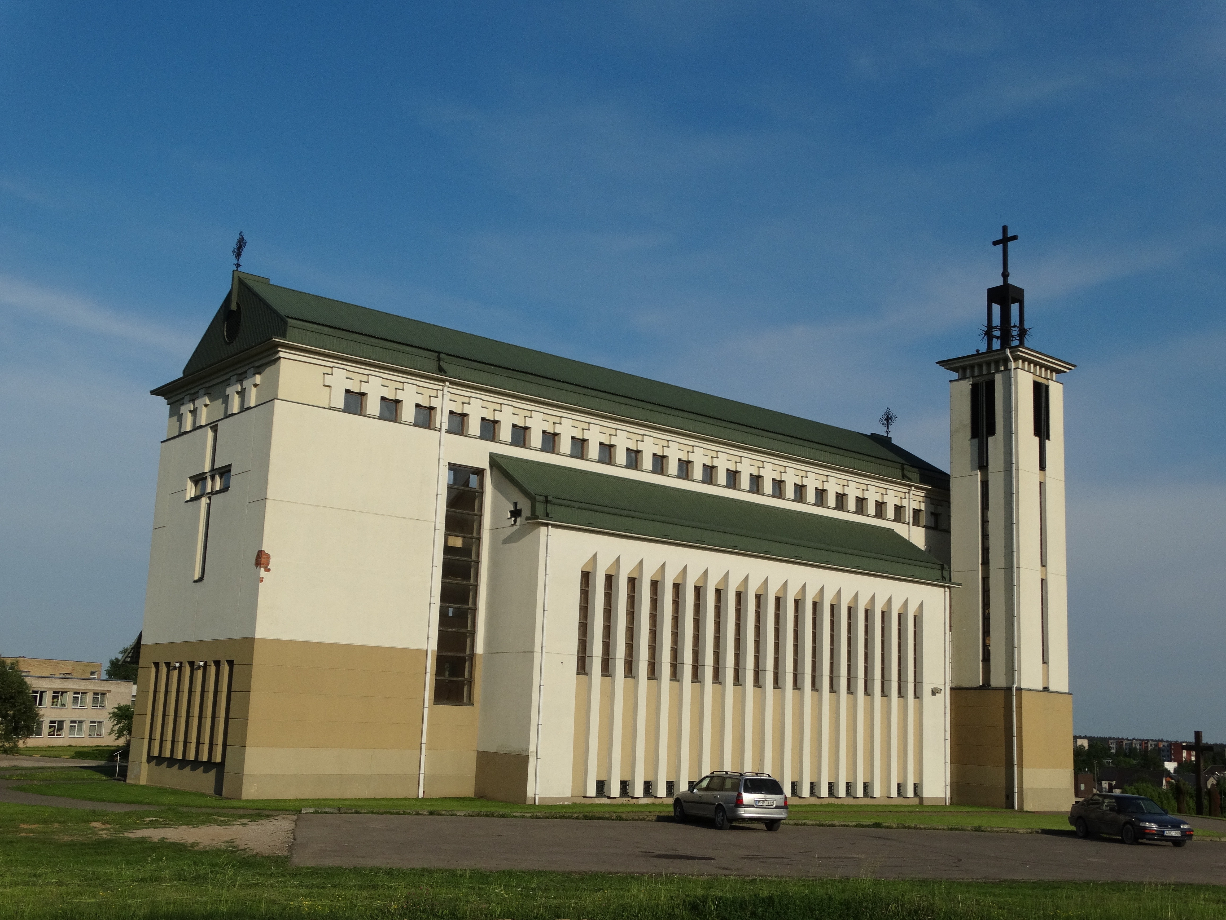 Catholic Church, Domeikava, Lithuania